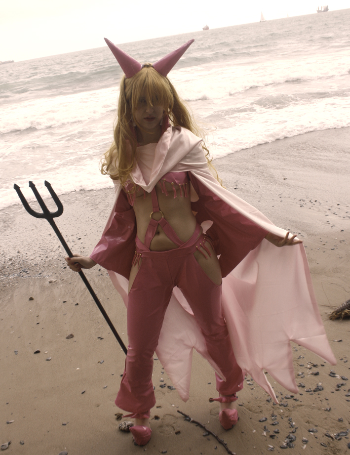 Sady-Chan Cosplay